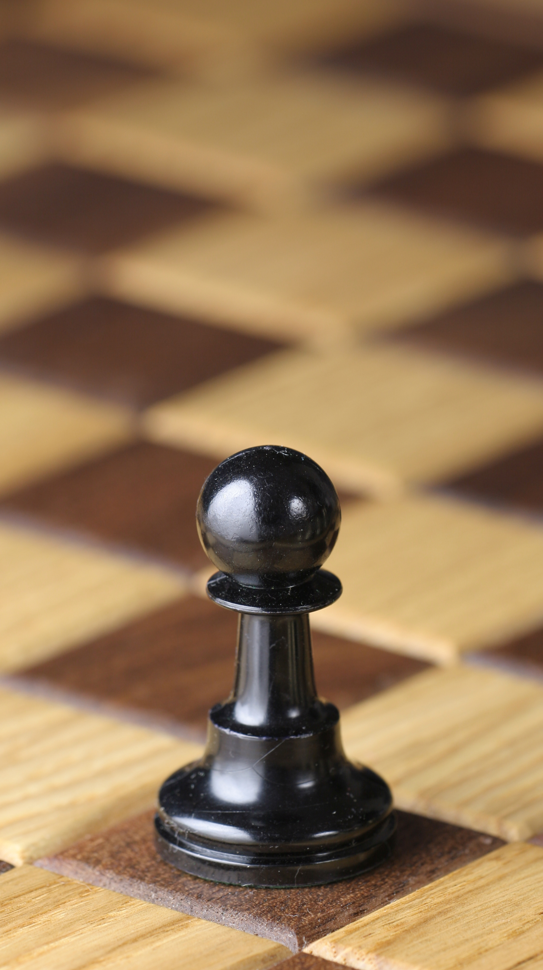 Chess piece - Black pawn, Staunton design